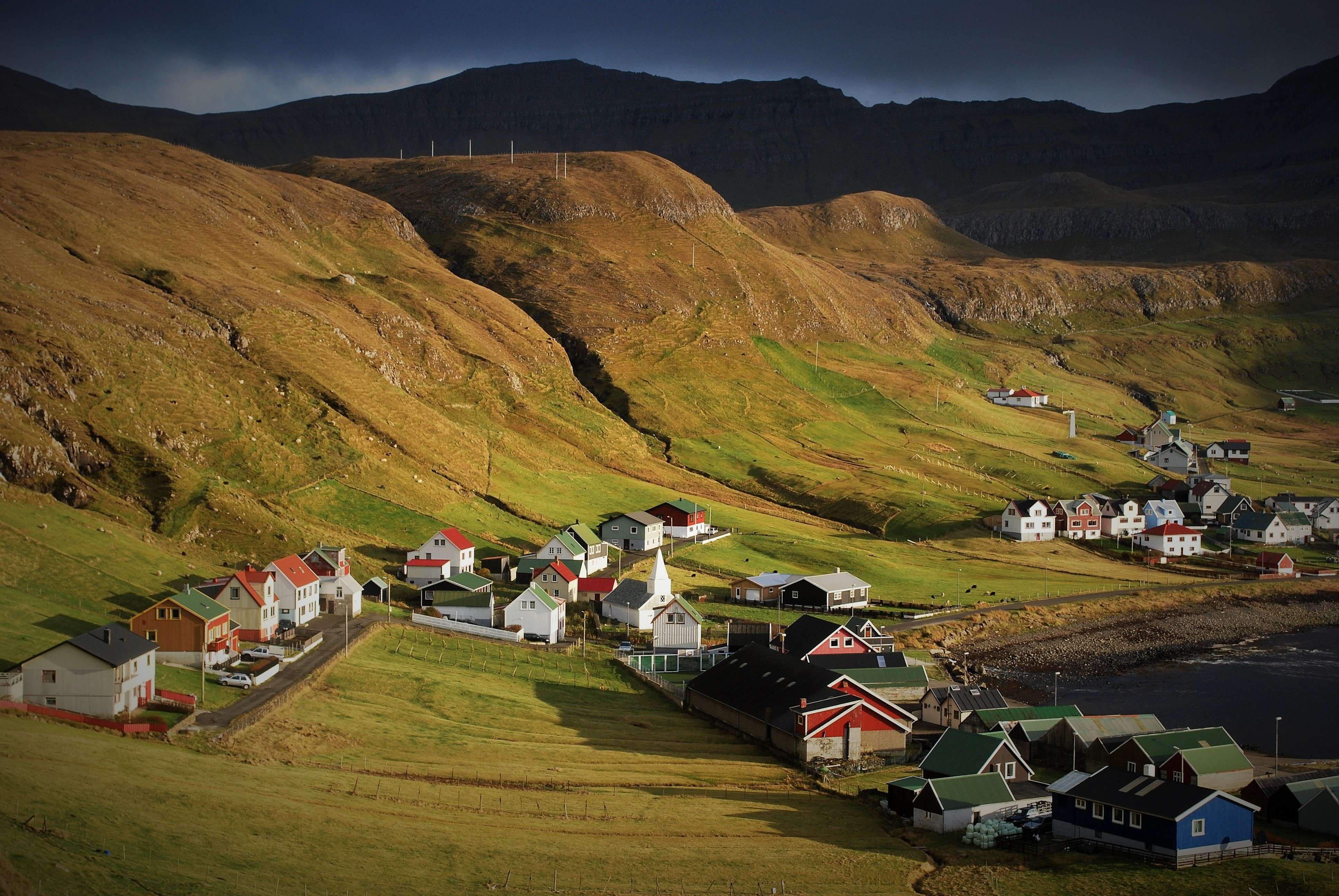 Fámjin, Suðuroy, Faroe Islands